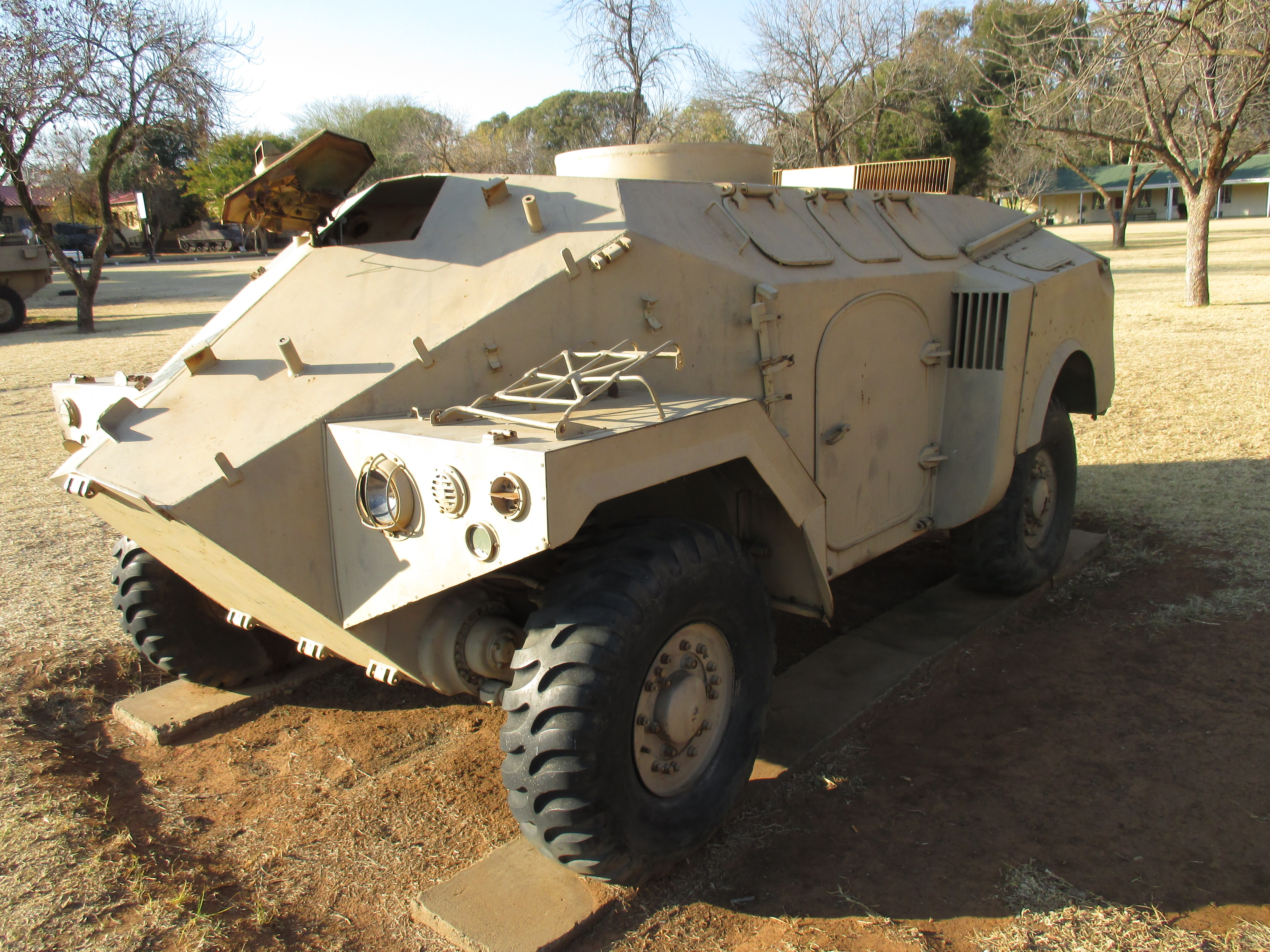 Description: Panhard M3 VTT prototype at the South African Armour Museum, Bloemfontein.